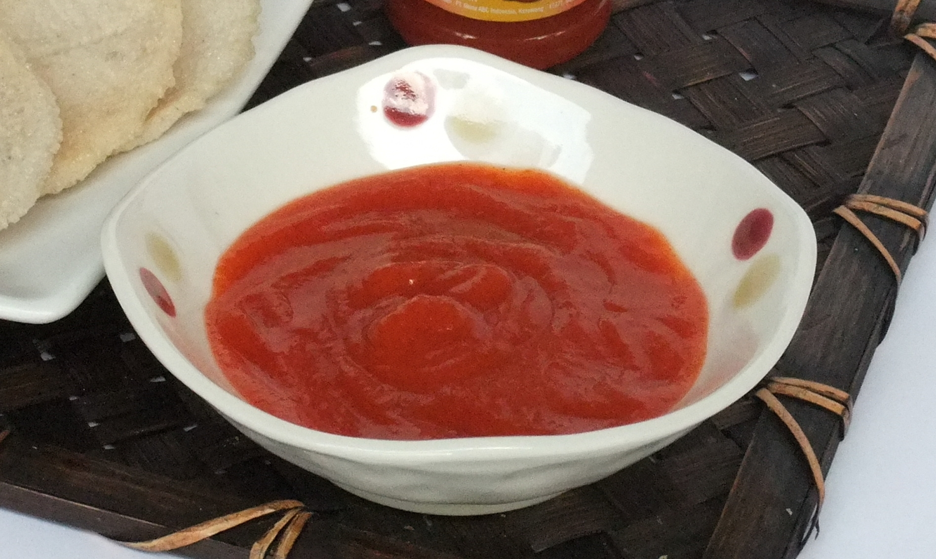 Sambal ABC